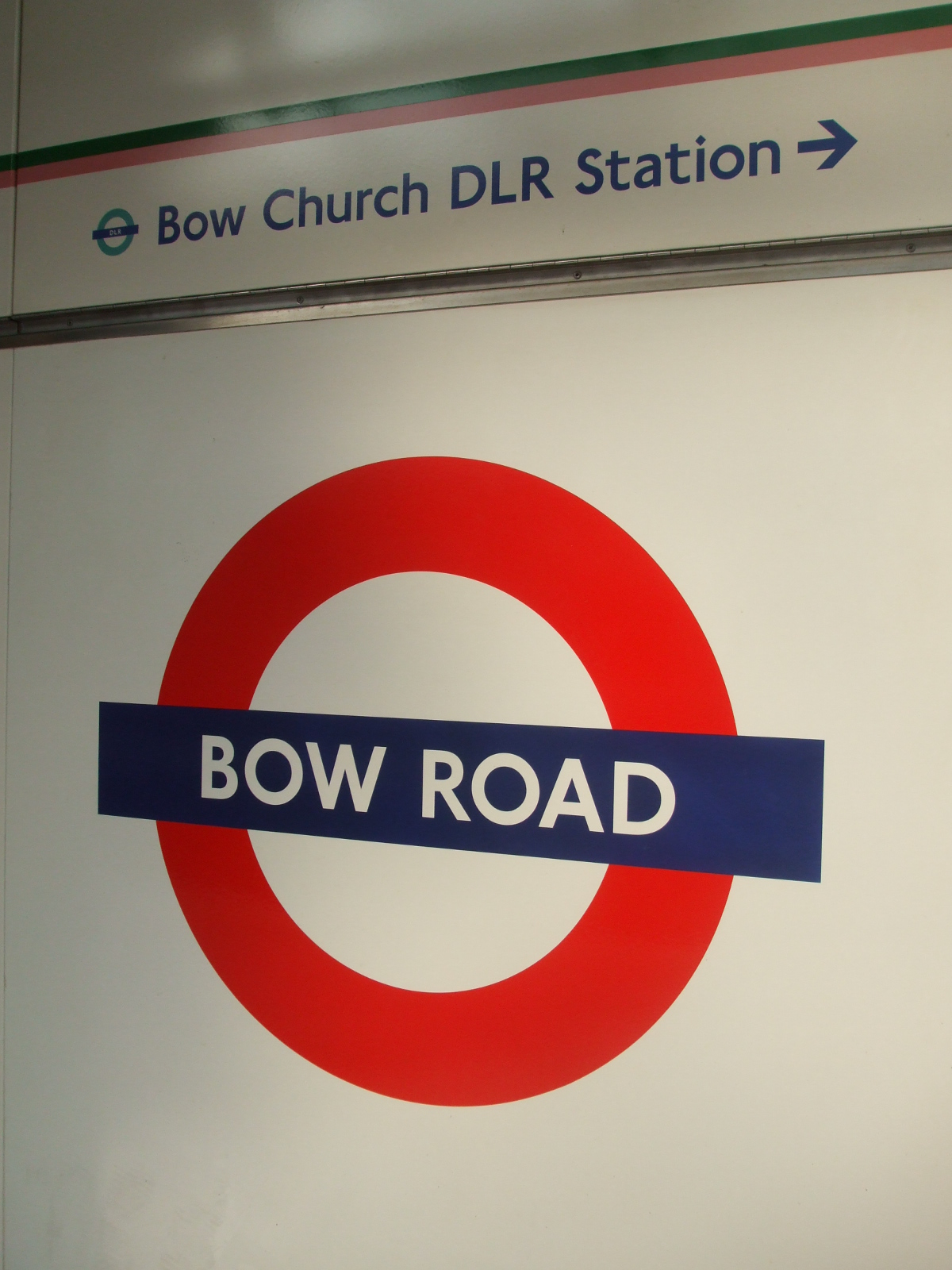 Bow Road tube station platform roundel. Note directions to nearby Bow Church DLR station.